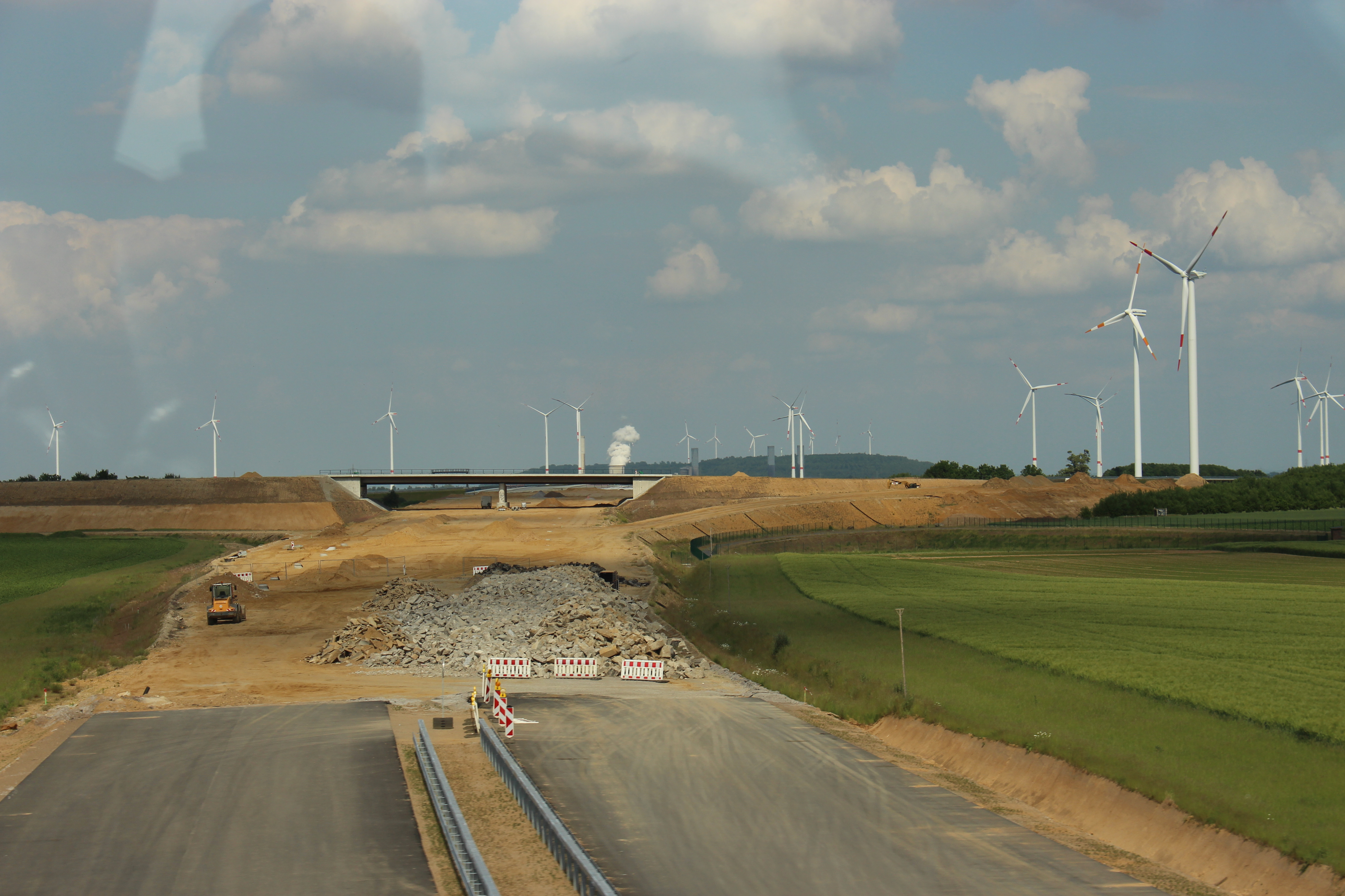 Building of Bundesautobahn 44 close to Tagebau Garzweiler.